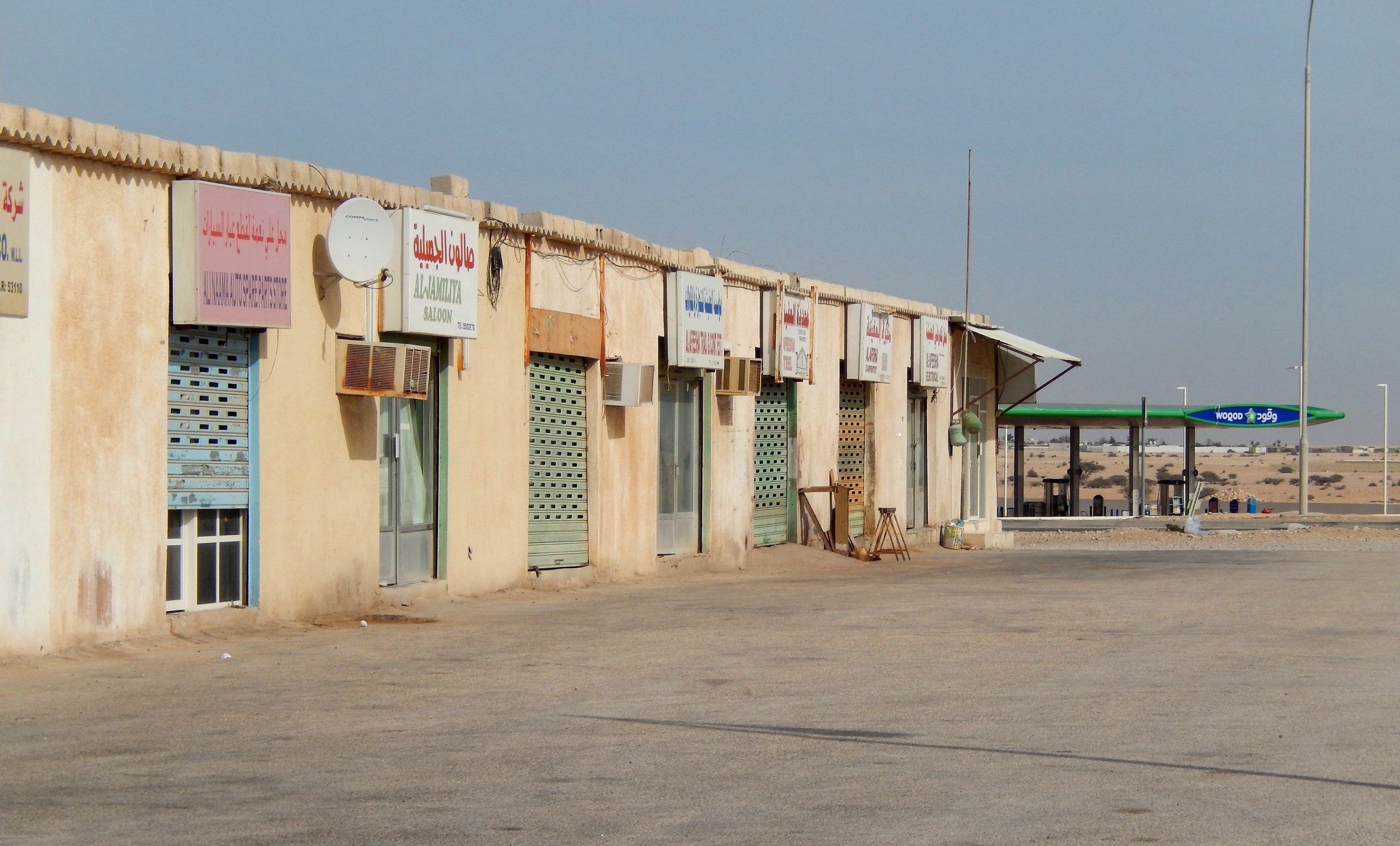 Closed shops and a WOQOD gas station in Al Jumailiyah (southern part of the village, municipality of Al Rayyan, Qatar).